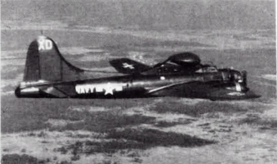 A U.S. Navy Boeing PB-1W Fortress AWACS aircraft of air development squadron VX-4 in the early 1950s. Note that the APS-20 radar was fitted above the fuselage.